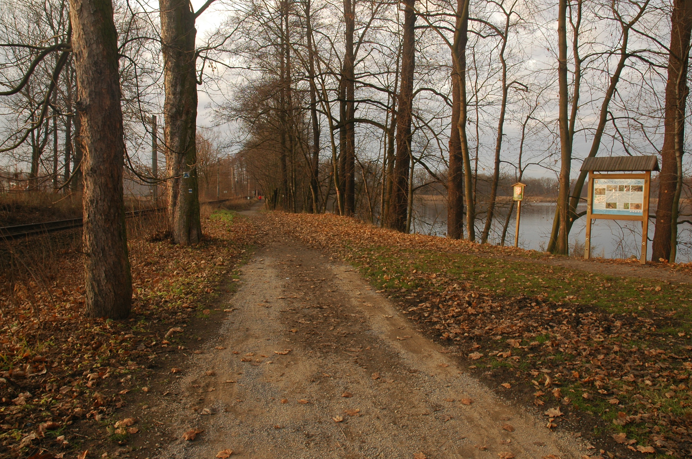 National monument Nový rybník u Soběslavi in Tábor District, Czech Republic